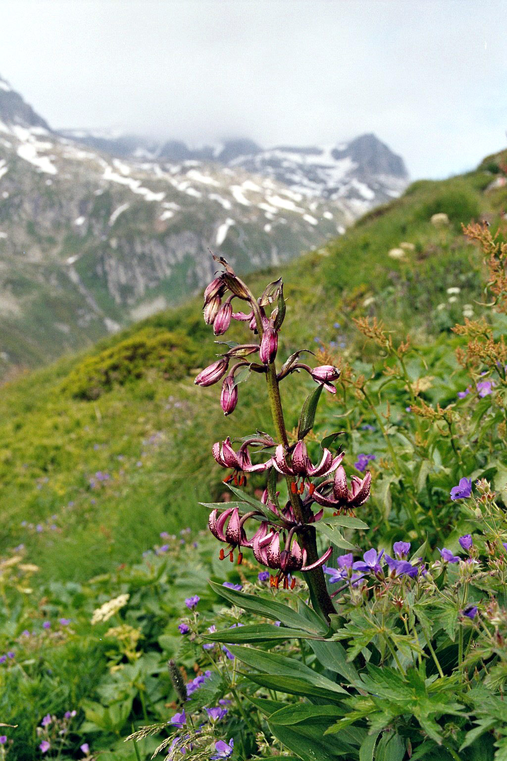 Martagon lily (Lilium martagon), Piz Lai Blau, Switzerland